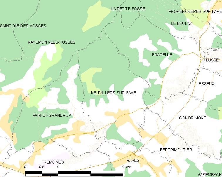 Map of French municipality Neuvillers-sur-Fave